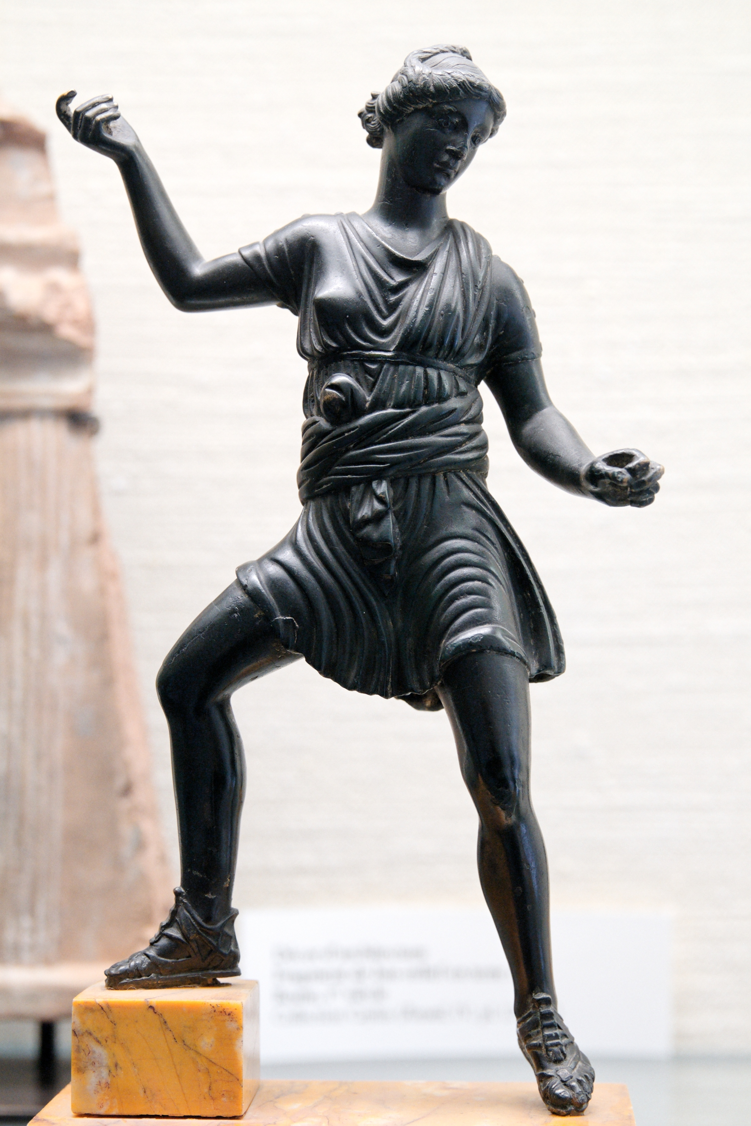 Statuette of Diana the Huntress. Gallo-Roman bronze, second half of the 1st century AD.